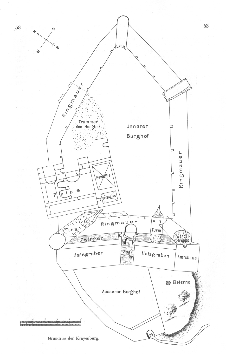 Copie of a historical map of the Krayenburg castle.